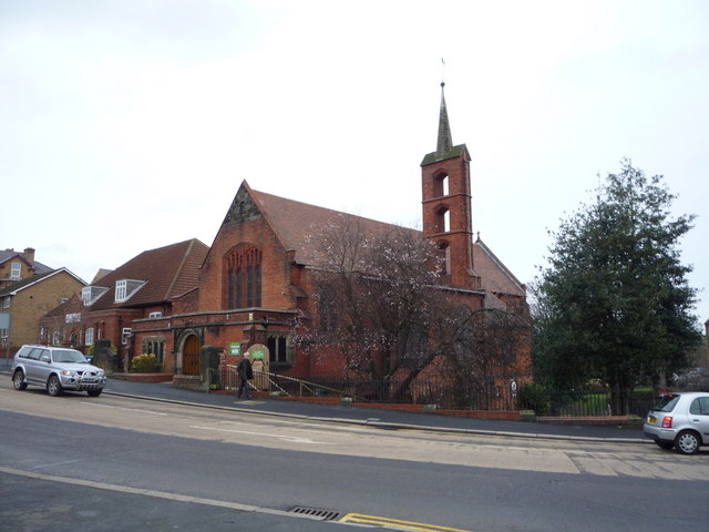 St James' Church, Falsgrave